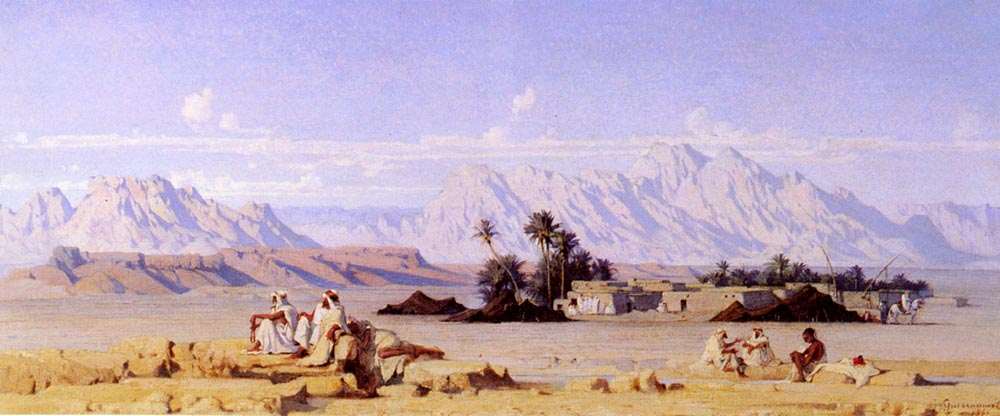 The Oasis